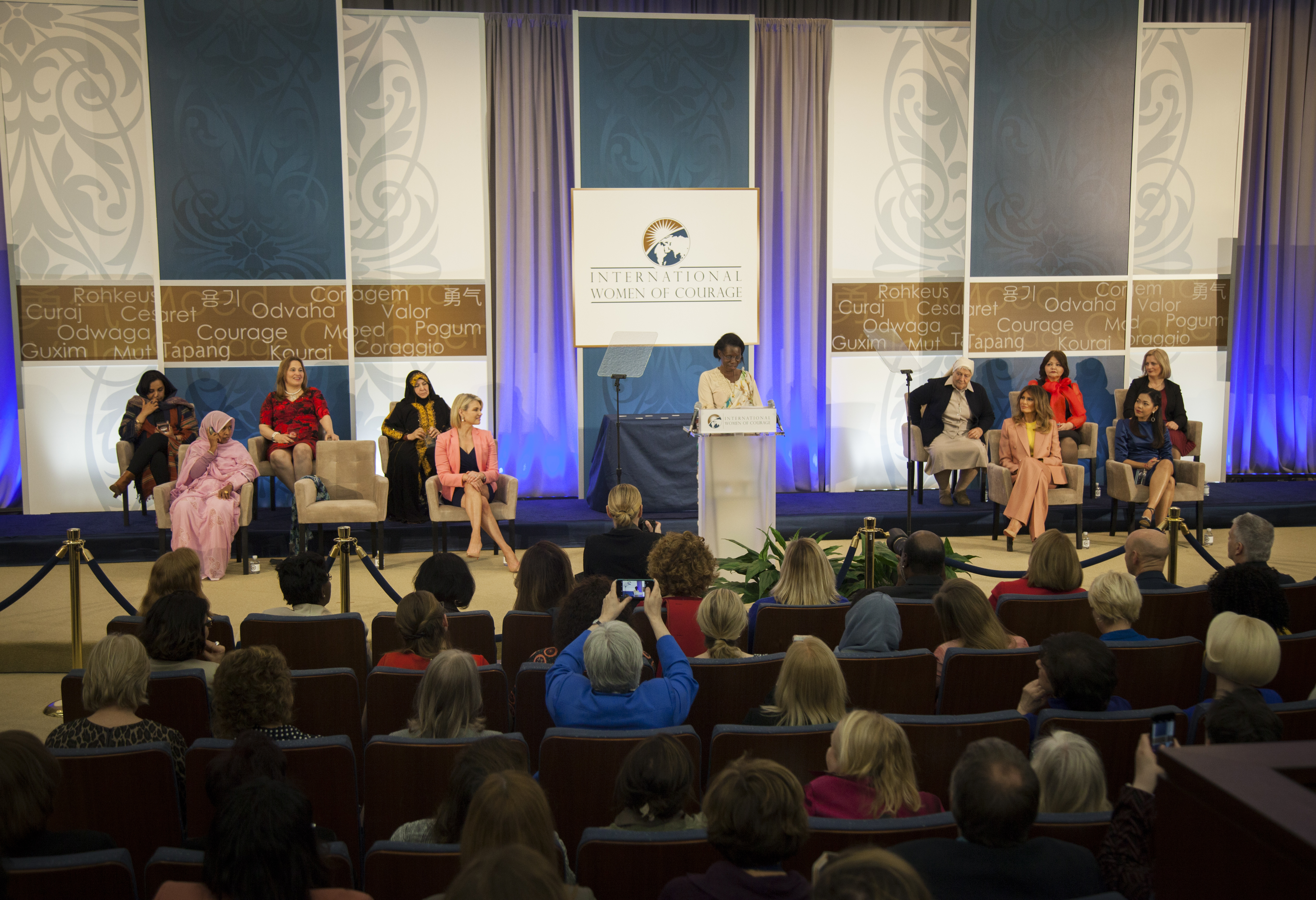 On March 23, Acting Under Secretary for Public Diplomacy and Public Affairs & Department Spokesperson Heather Nauert hosted the annual International Women of Courage (IWOC) Awards at the U.S. Department of State to honor 10 extraordinary women from around the world. First Lady of the United States Melania Trump delivered special remarks at the ceremony.